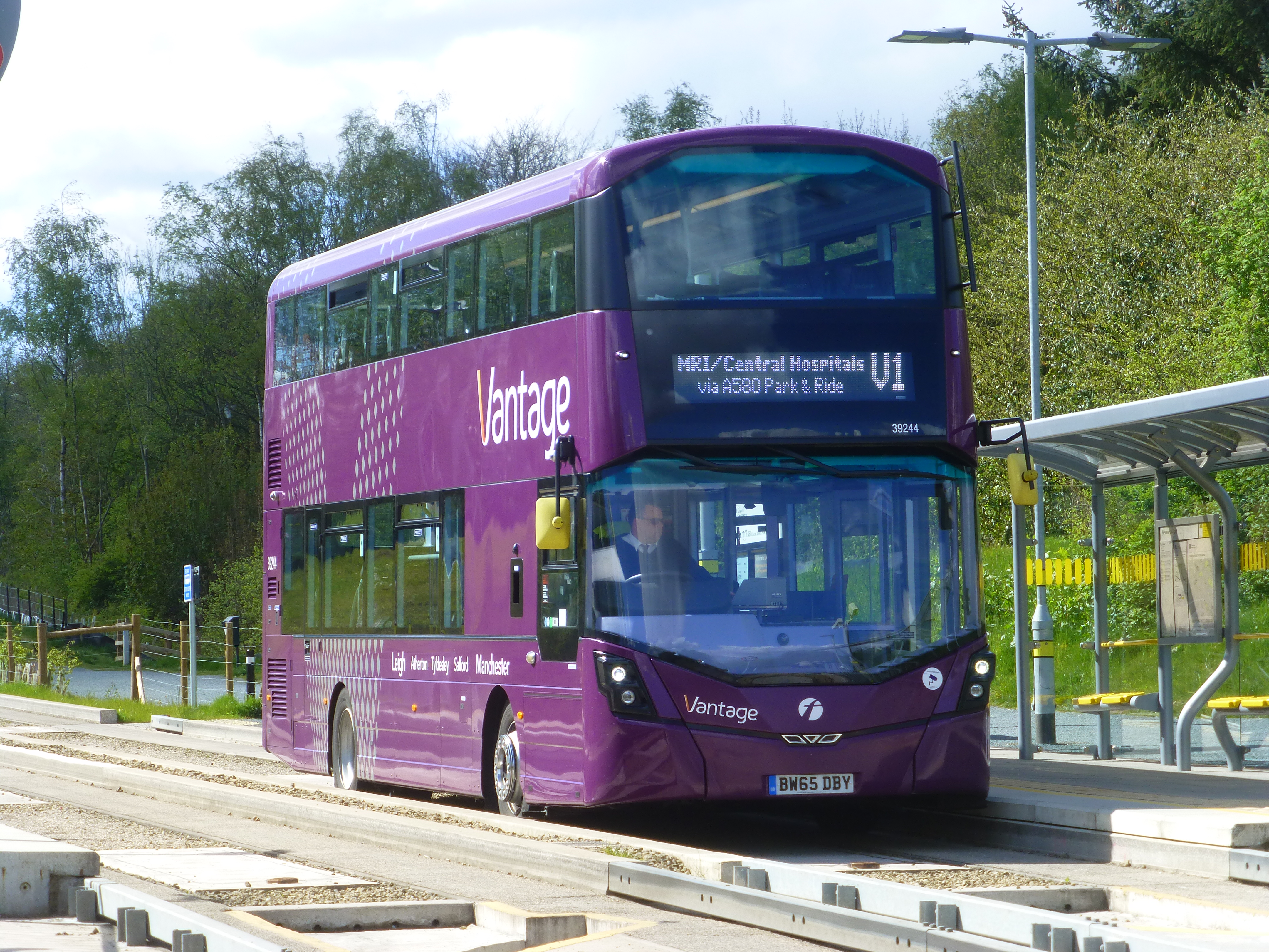 A Vantage kerb guided bus on route V1 calls at Newearth Road bus stop on the Manchester Leigh busway.